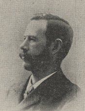 Former United States Representative from Ohio, William John White.